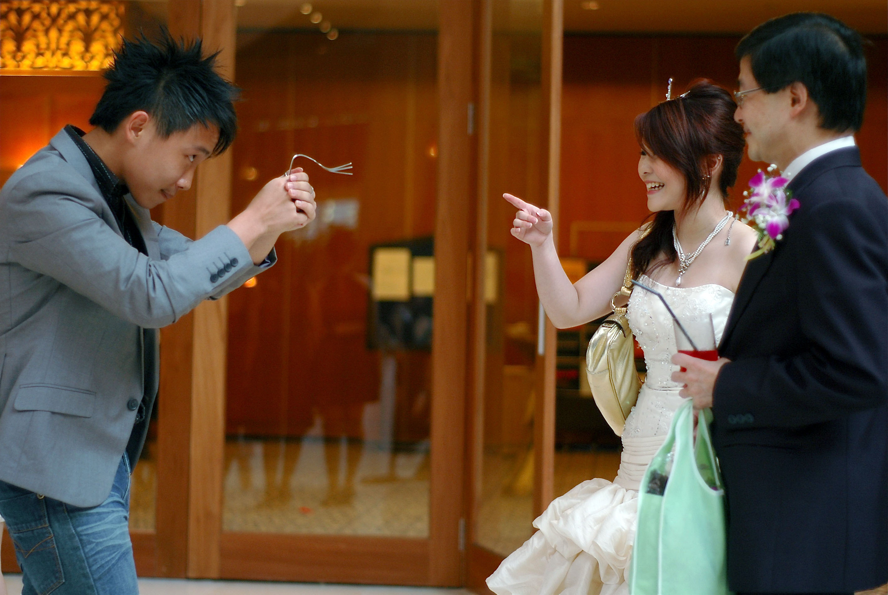 Chris Cheong performing 1 - For below article purposes